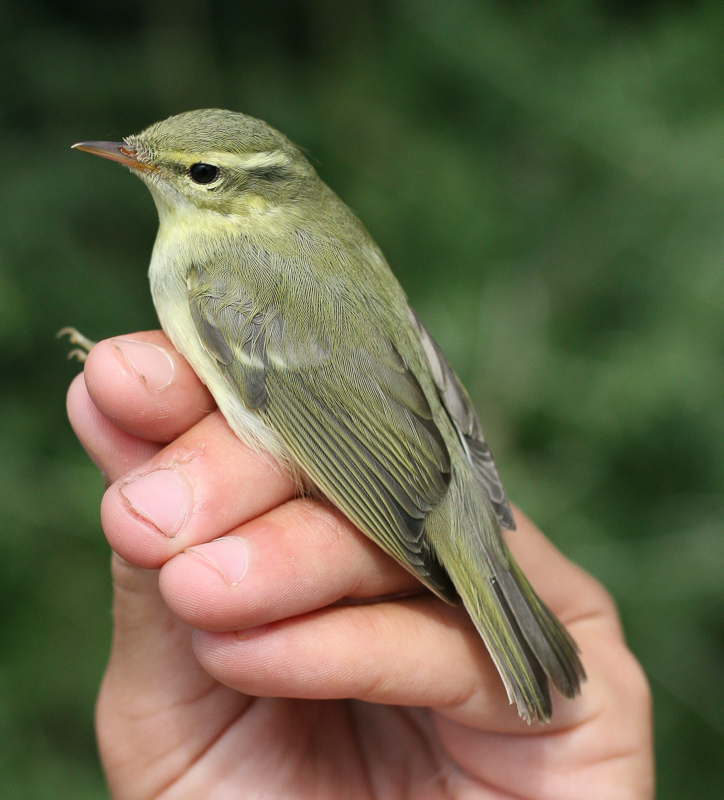 Phylloscopus nitidus (Phylloscopidae) (Green Warbler), Chorokhi Delta - Southern Ponds & Wetlands, Georgia